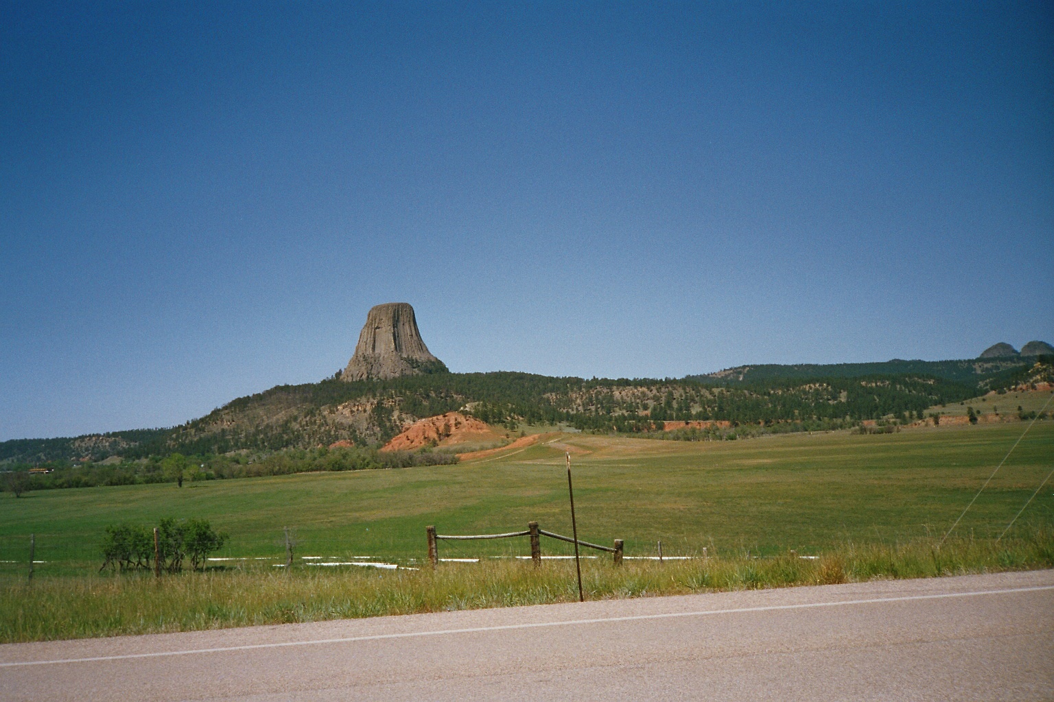 View to Devils Towerfrom SR 24N